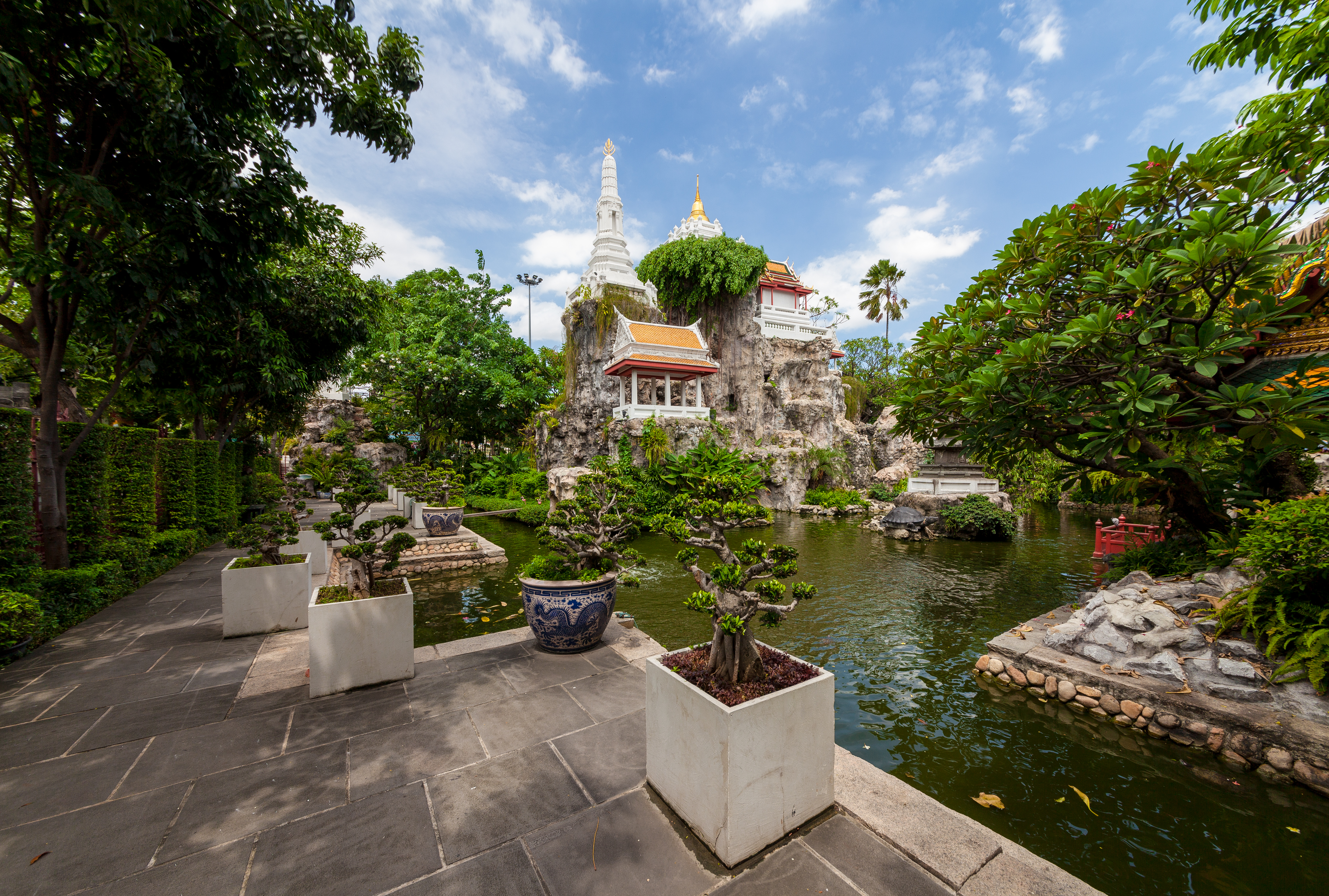 Khao Mo and Thai garden at Wat Prayurawongsawat, BKK.